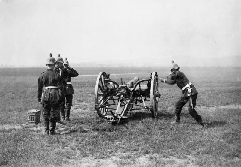 The Imperial German Army 1890 - 1913 The crew of a German field gun fire a round during the manoeuvres of 1902.